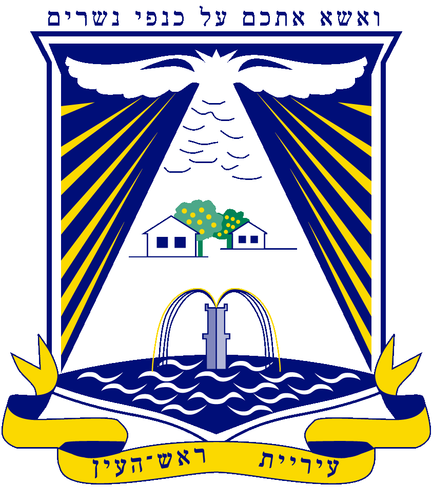 Coat of arms of Rosh HaAyin.